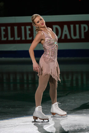 2008 Four Continents Figure Skating Championships - Joannie Rochette exhibition